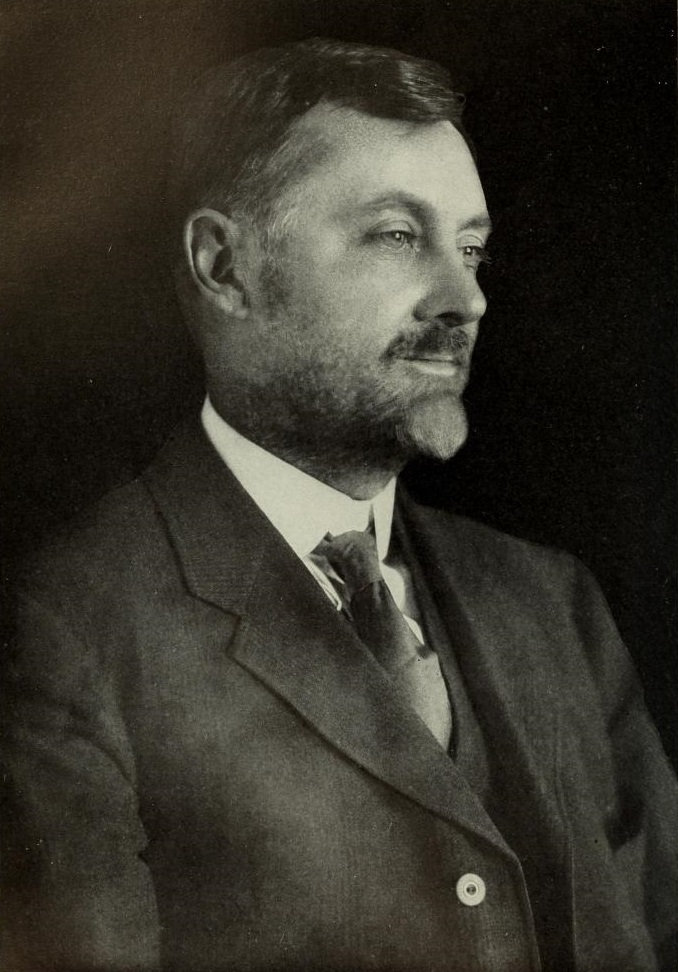 Portrait of Charles Richard Crane